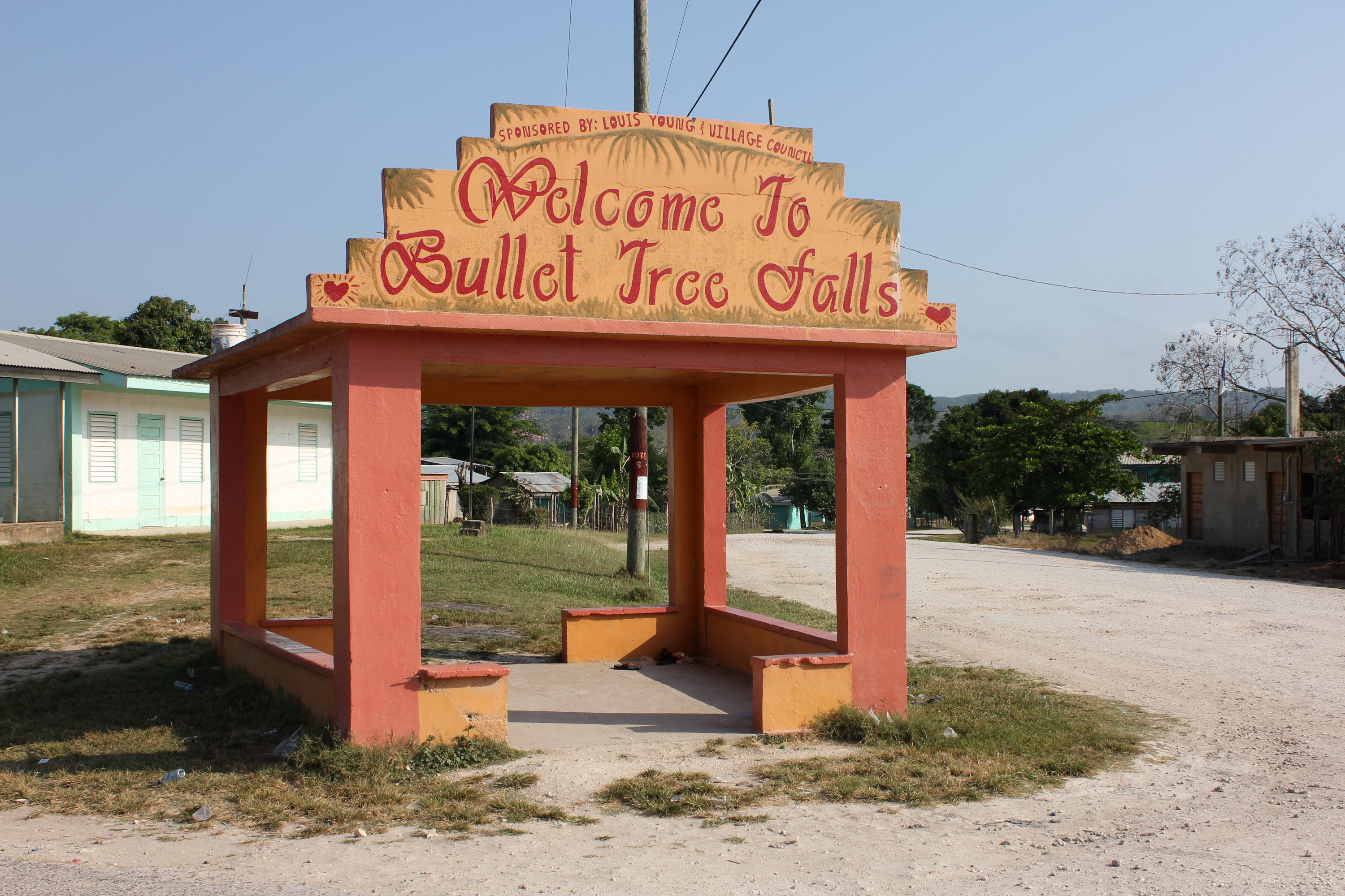 The main bus stop in Bullet Tree Falls, Belize